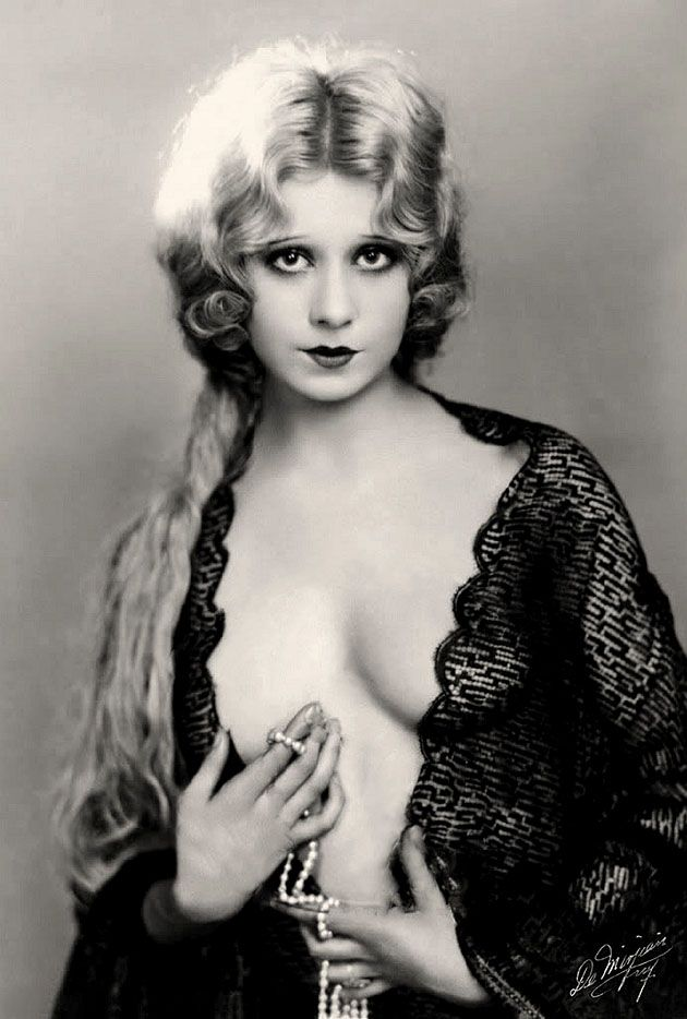 A portrait of Bacon who was once "America's Most Beautiful Dancer"